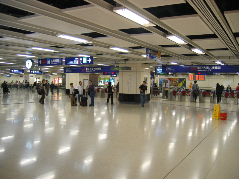 KCR East Rail East Tsim Sha Tsui station Concourse